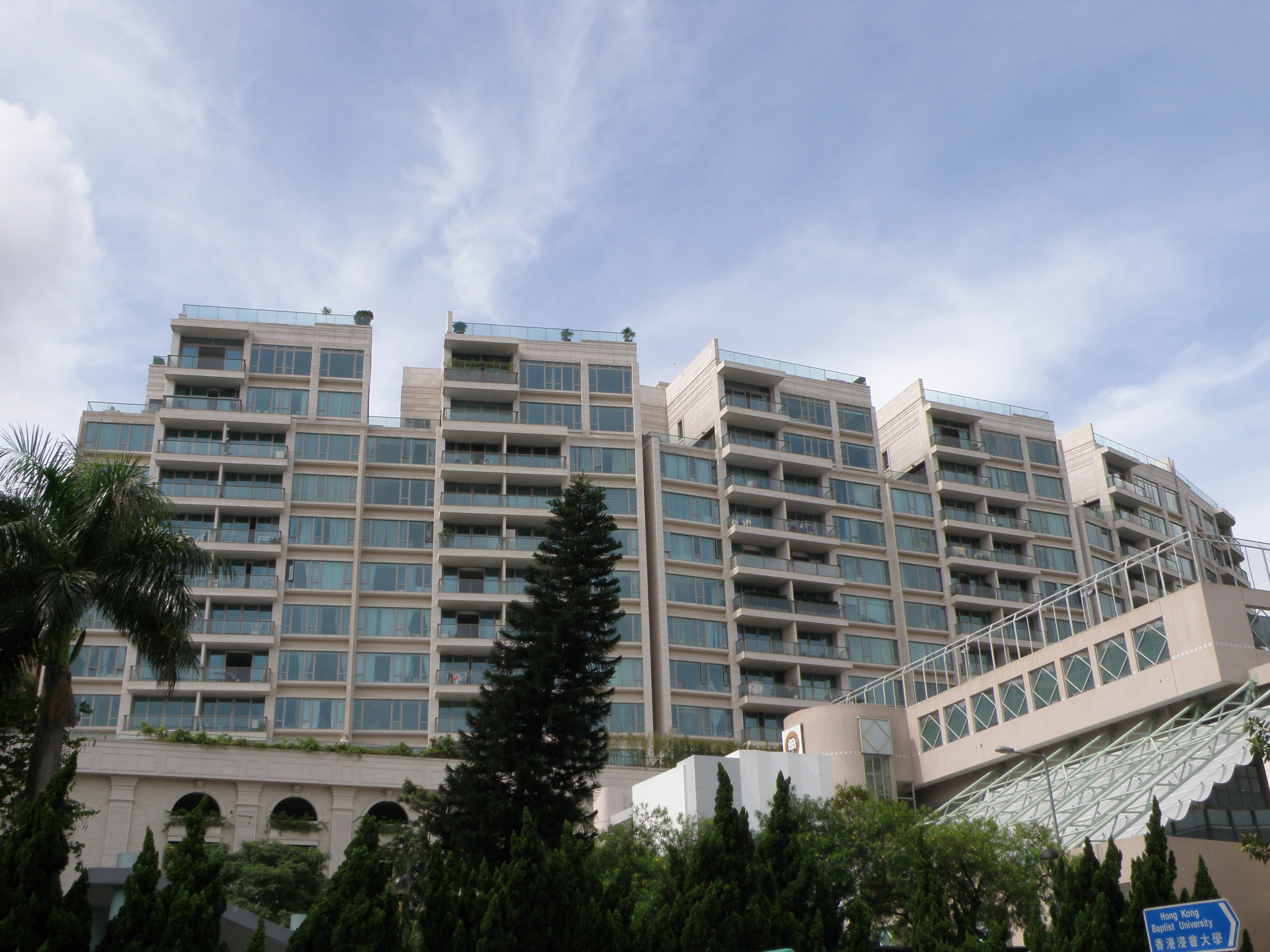 One Mayfair in Broadcast Drive, Hong Kong.